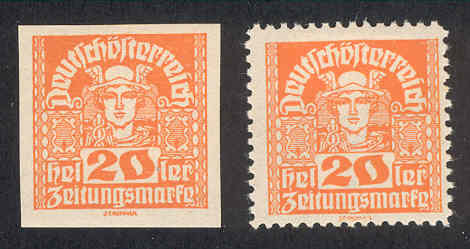 Austrian newspaper stamp of 1920